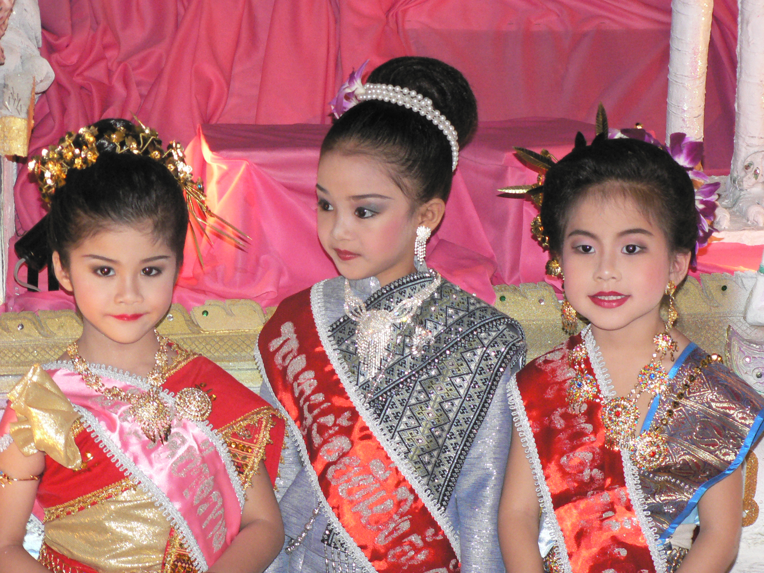 Loi Krathong, Chiang Mai 2005